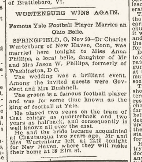 A Boston Daily Globe article about the wedding of football coach and physician William Wurtenburg to Ms. Anna Phillips